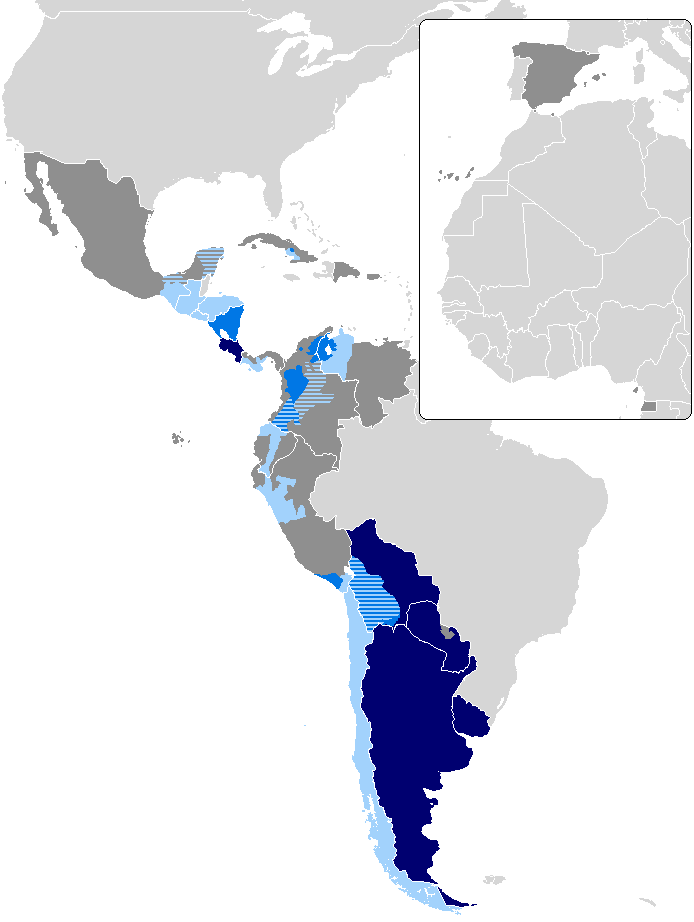 An edited map that corrects an error from the previous one.